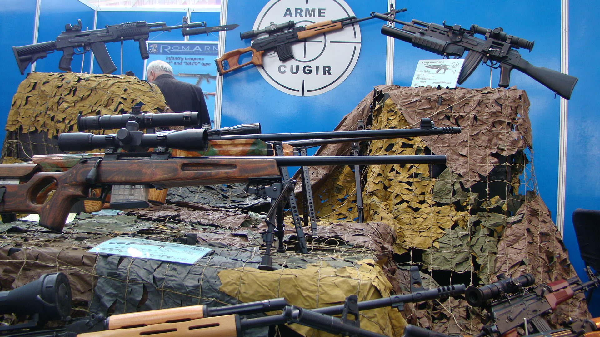 Weapons made by UM Cugir at Black Sea Defense and Aerospace 2010.